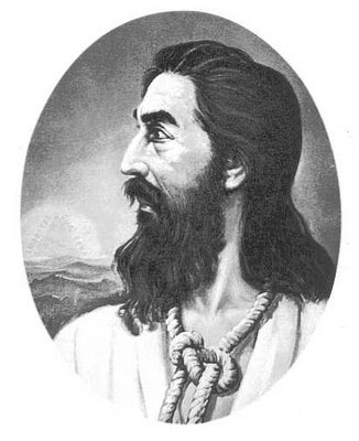 Official Tiradentes Portrait by Alberto Delpino